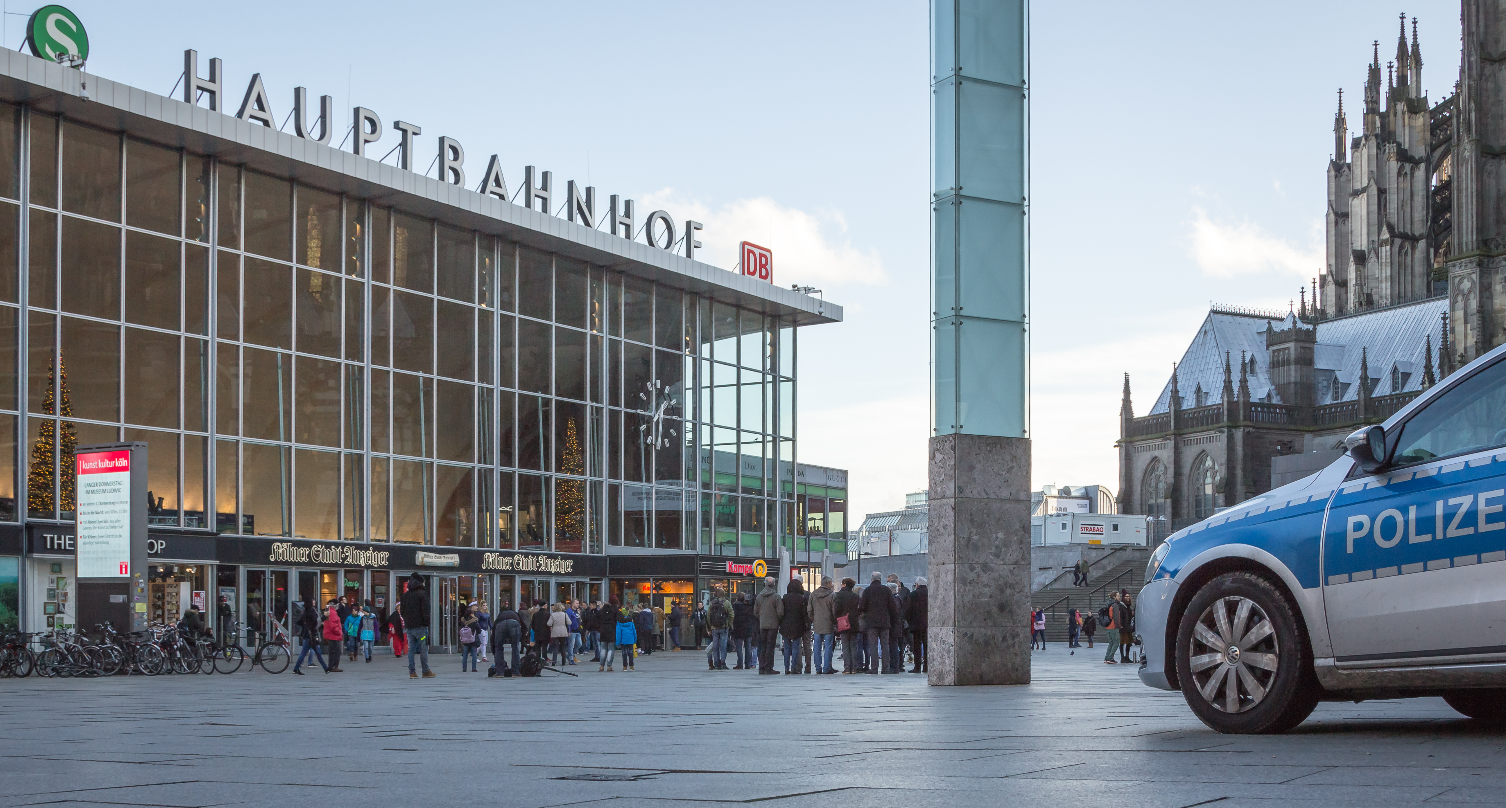 Police automobile in front of Cologne Central Station a week after New Year's Eve 2015 sexual assaults in Germany